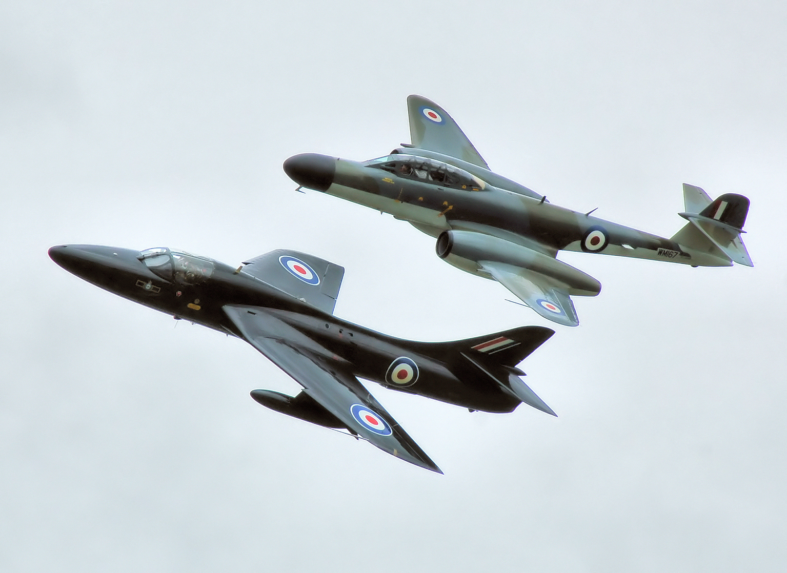 Privately-owned ex-RAF Hawker Hunter T7A (RAF code WV318, civil registration G-FFOX) flies with privately-owned ex-RAF Gloster Meteor NF11 (RAF code WM167, civil registration G-LOSM) at Kemble Air Show, Kemble Airport, Gloucestershire, England. The Hunter is in the colours of the former RAF Black Arrows aerobatics team and was delivered to the RAF in 1955. The Meteor was built by Armstrong Whitworth in 1952 at their Baginton (Coventry) factory. It entered RAF service in 1952 and left RAF service in 1975.